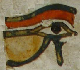 Stele of Takhenemet paying tribute to the god Ra-Horakhty wearing the costume of Osiris. Pigment and plaster on wood. Third Intermediate Period, Dynasty XXV, c. 775-653 BC. Most likely from Thebes.